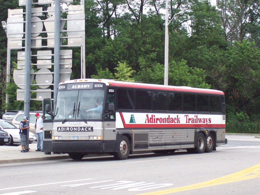 Adirondack Trailways #62934 picks up customers in Nanuet en route to Albany.